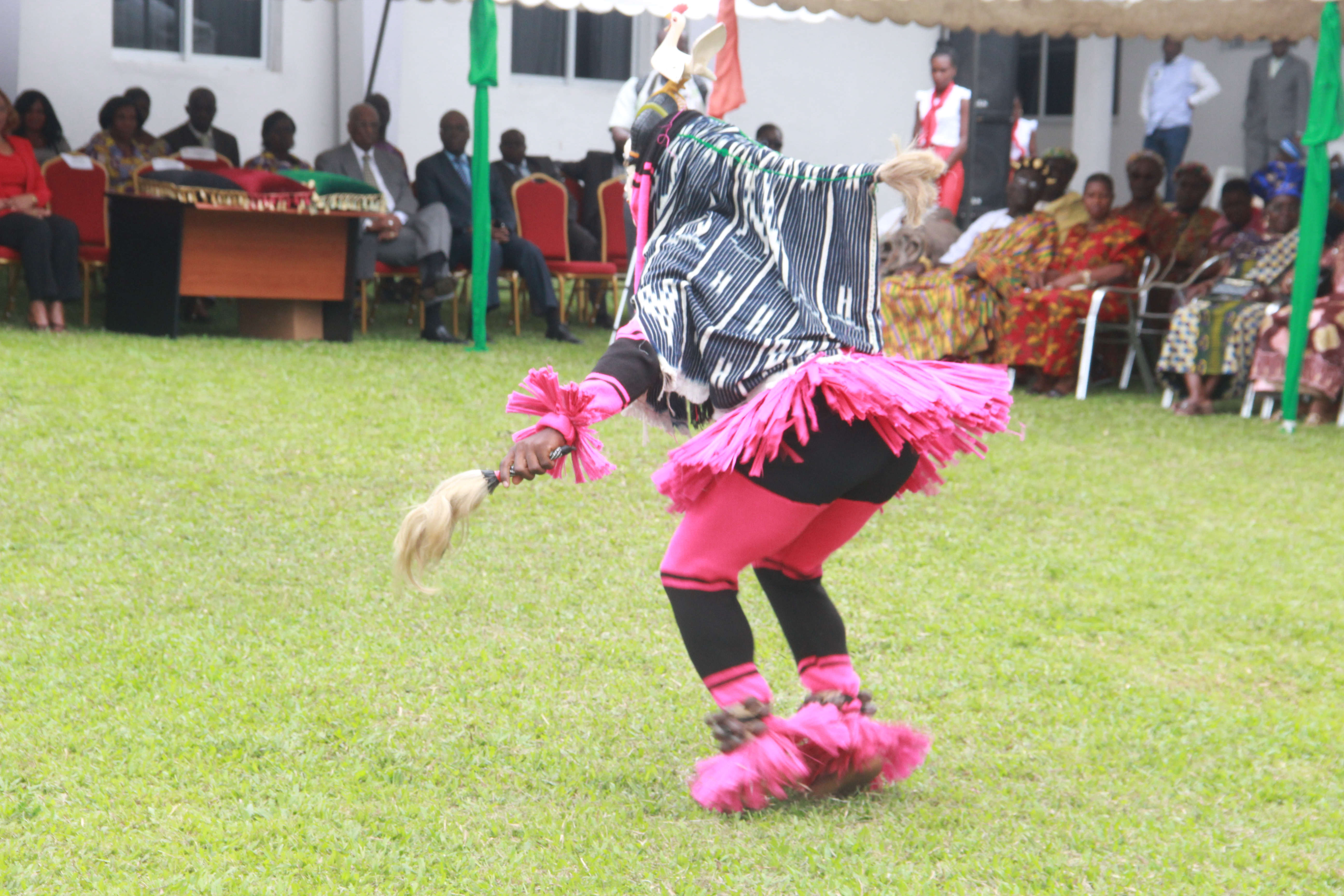 Zaouli is a traditional dance of the Guro people in Cote d'ivoire. This is an image of music and dance from Côte d'Ivoire